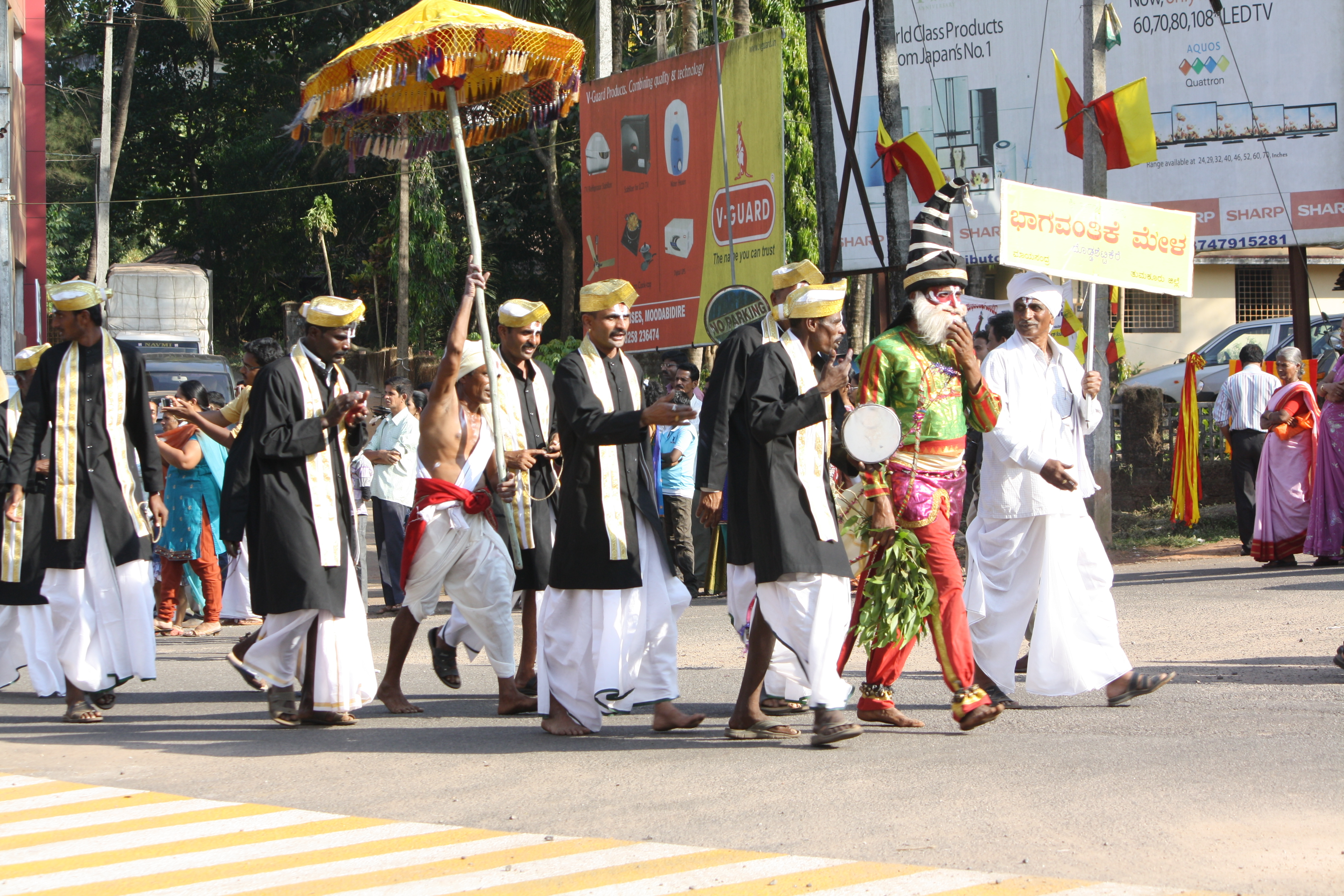 Bhaagavanthike Mela, a kind of folk performance from Karnataka, Indiaಕನ್ನಡ: ಕರ್ನಾಟಕದ ಜಾನಪದ ಕಲಾಪ್ರಕಾರ ಭಾಗವಂತಿಕೆ ಮೇಳ